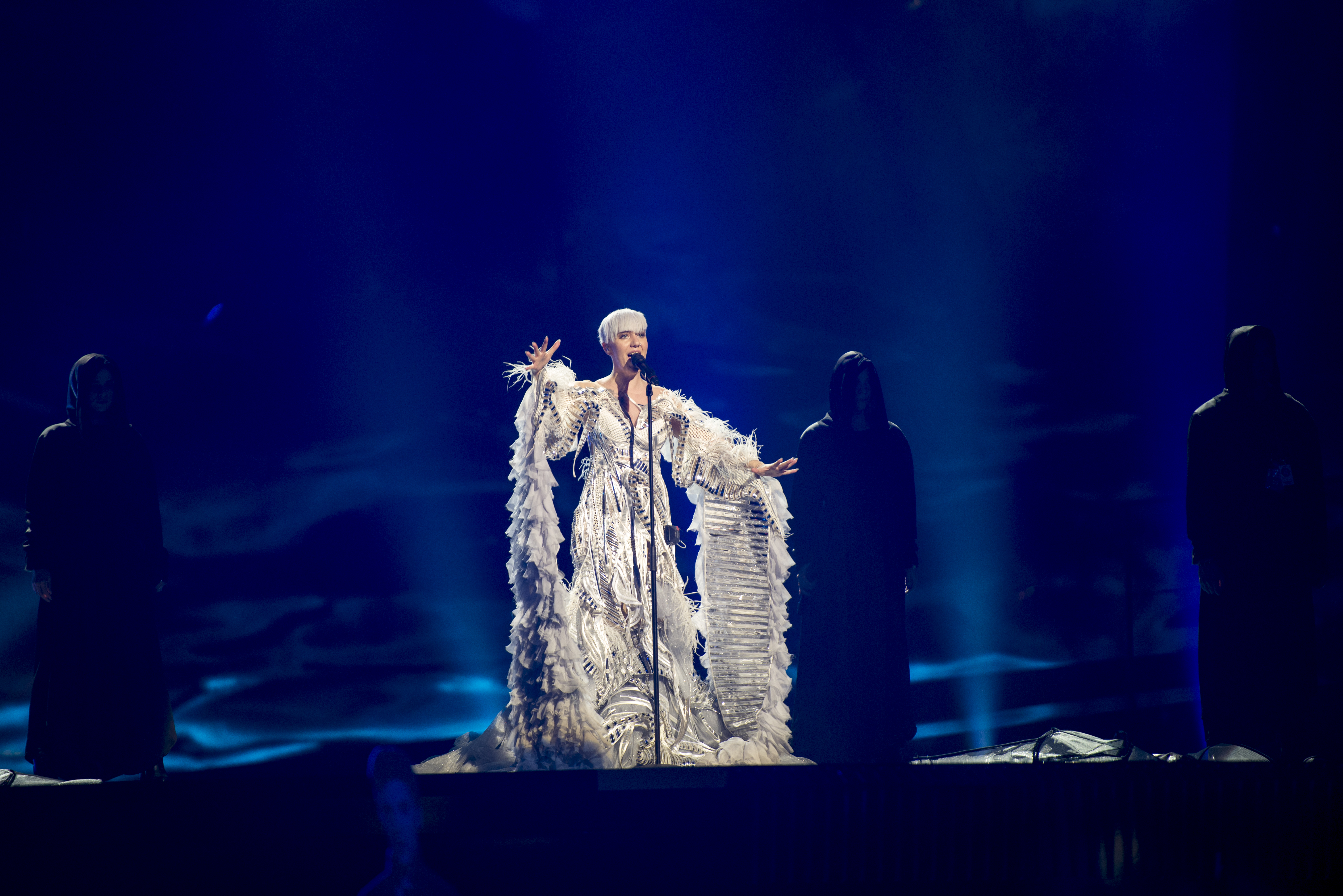 Nina Kraljić representing Croatia with the song "Lighthouse" during a rehearsal before the first semi final of the Eurovision Song Contest 2016 in Stockholm. (Help translate this text)